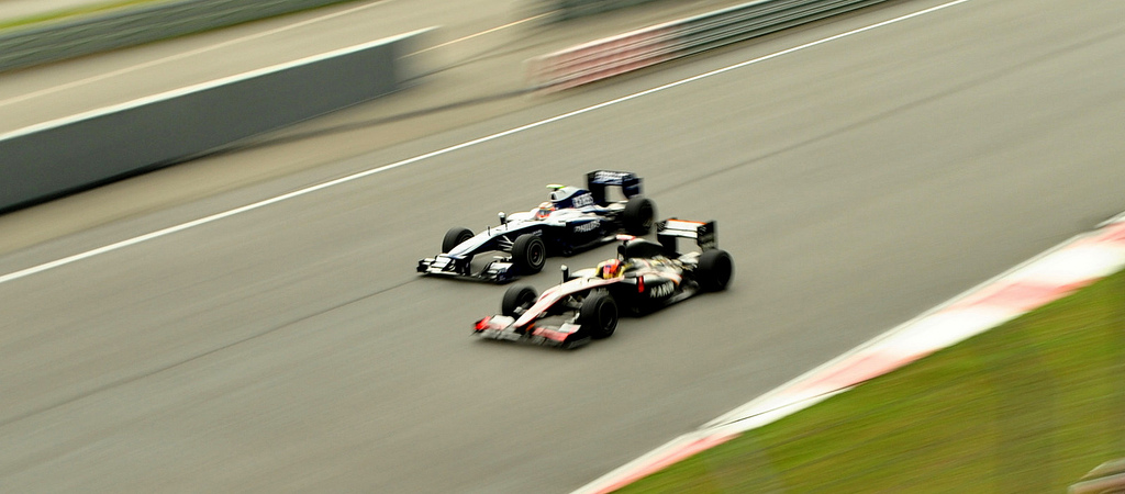 Hispania racing team's driver Karun Chandhok overtaking one of Williams drivers.